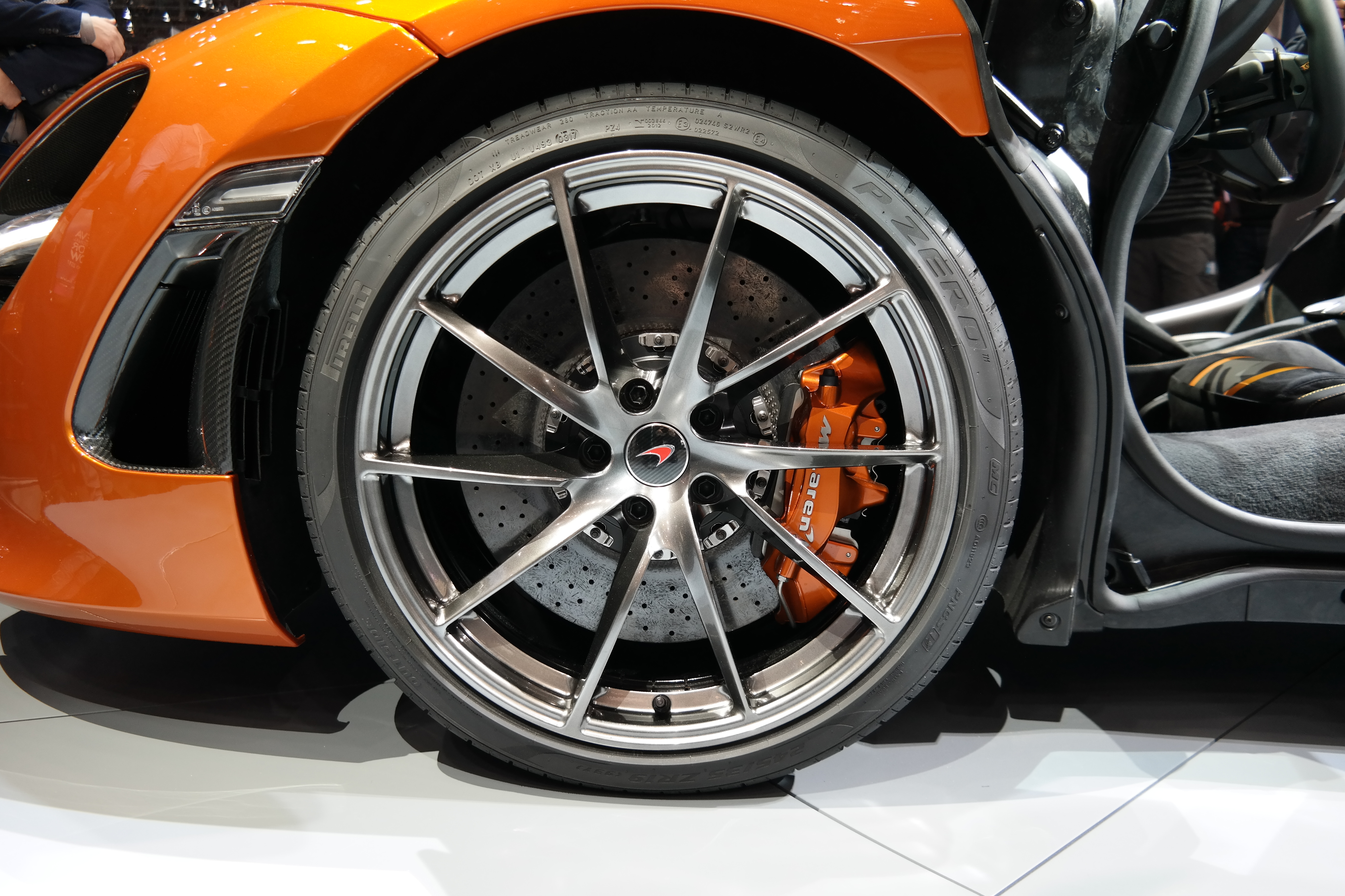 Geneva Motor Show 2017 (photo taken on the first press day)